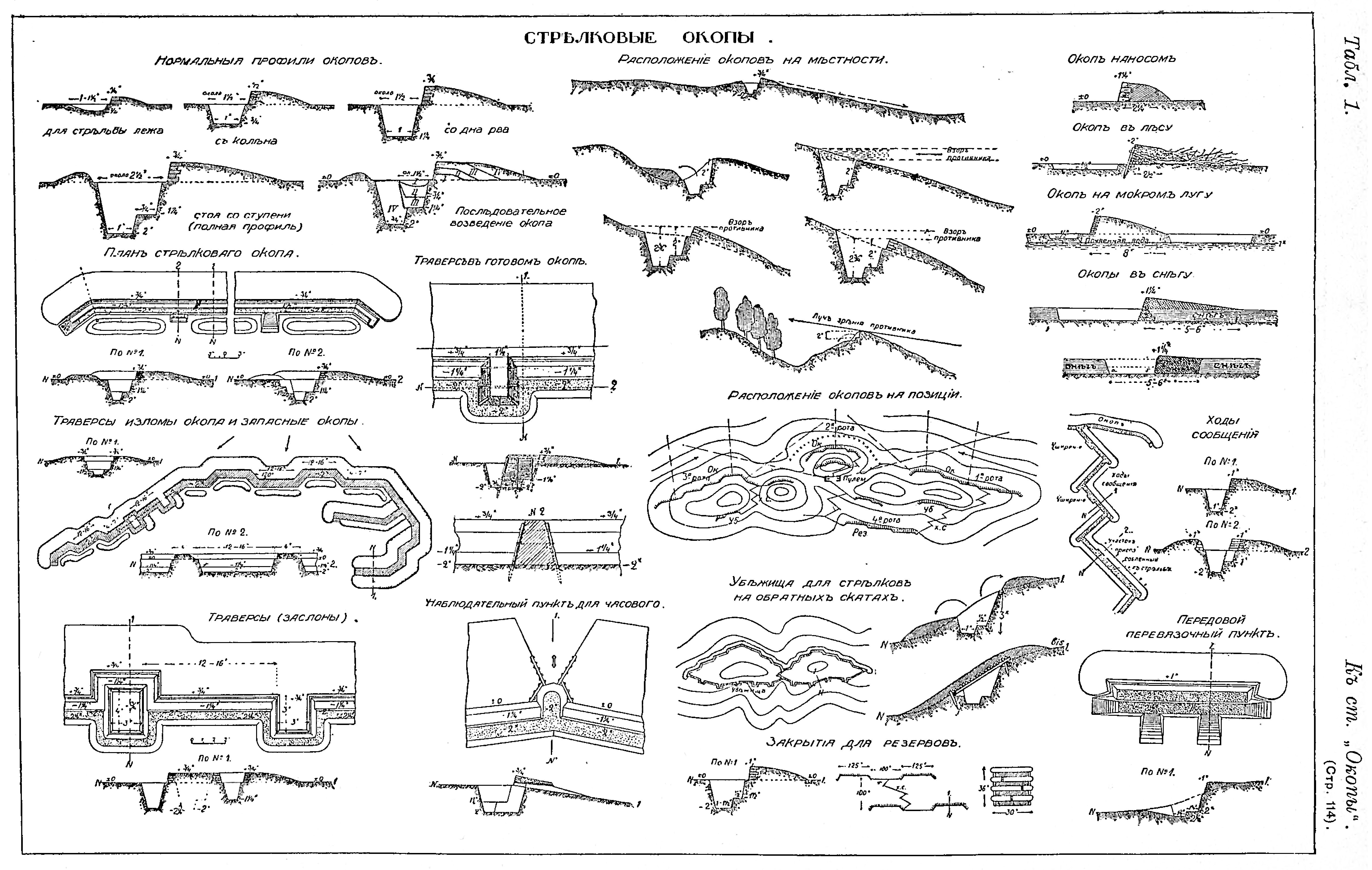 A defensive fighting position (DFP) is a type of earthwork constructed in a military context, generally large enough to accommodate anything from one man to a small number of soldiers.